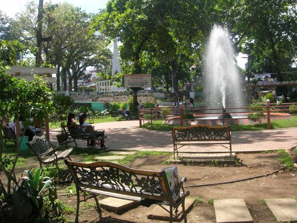 Isabela City Plaza — in Basilan, of the Mindanao region in the southern Philippines.